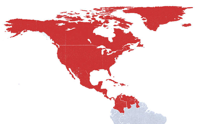 The North America Technate would be composed of all of North America, Central America, the Caribbean, north of South America and Greenland, encompassing some 30 modern nations (as well as numerous Non-Self-Governing Territories).